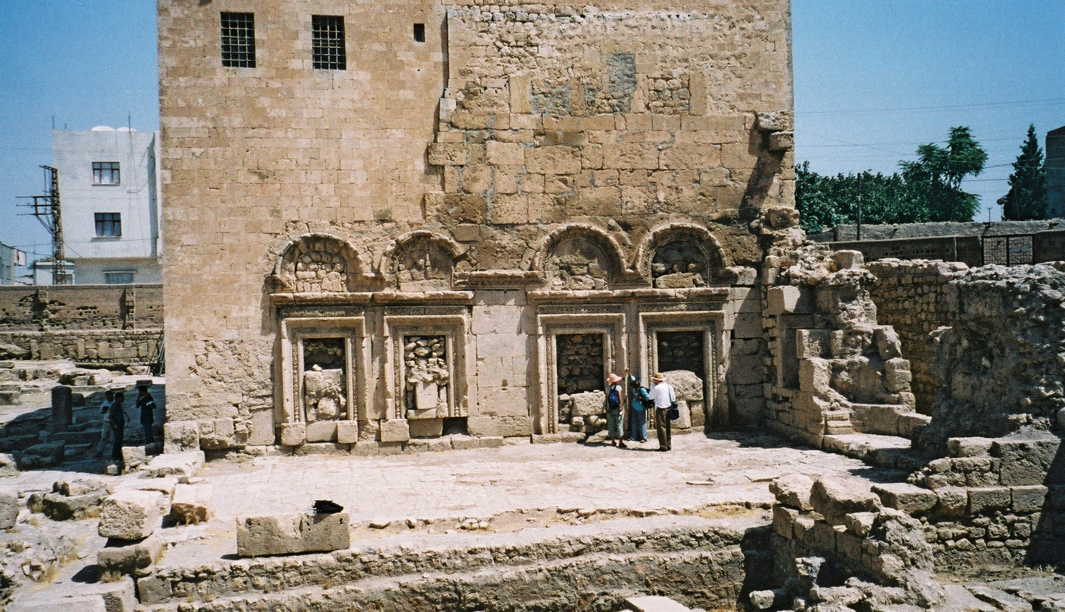 Photograph by Gareth Hughes of the Church of Saint Jacob (`Idto d-Mor Y`aqub) in Nisibis.